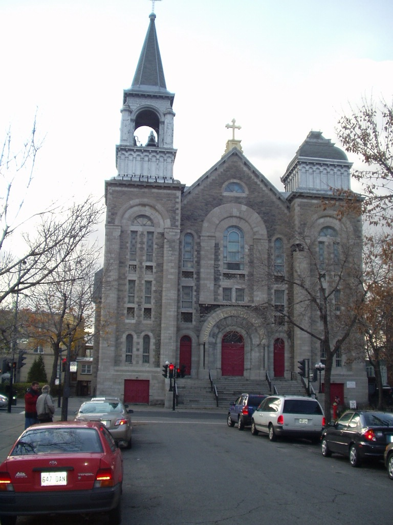 Parish Church